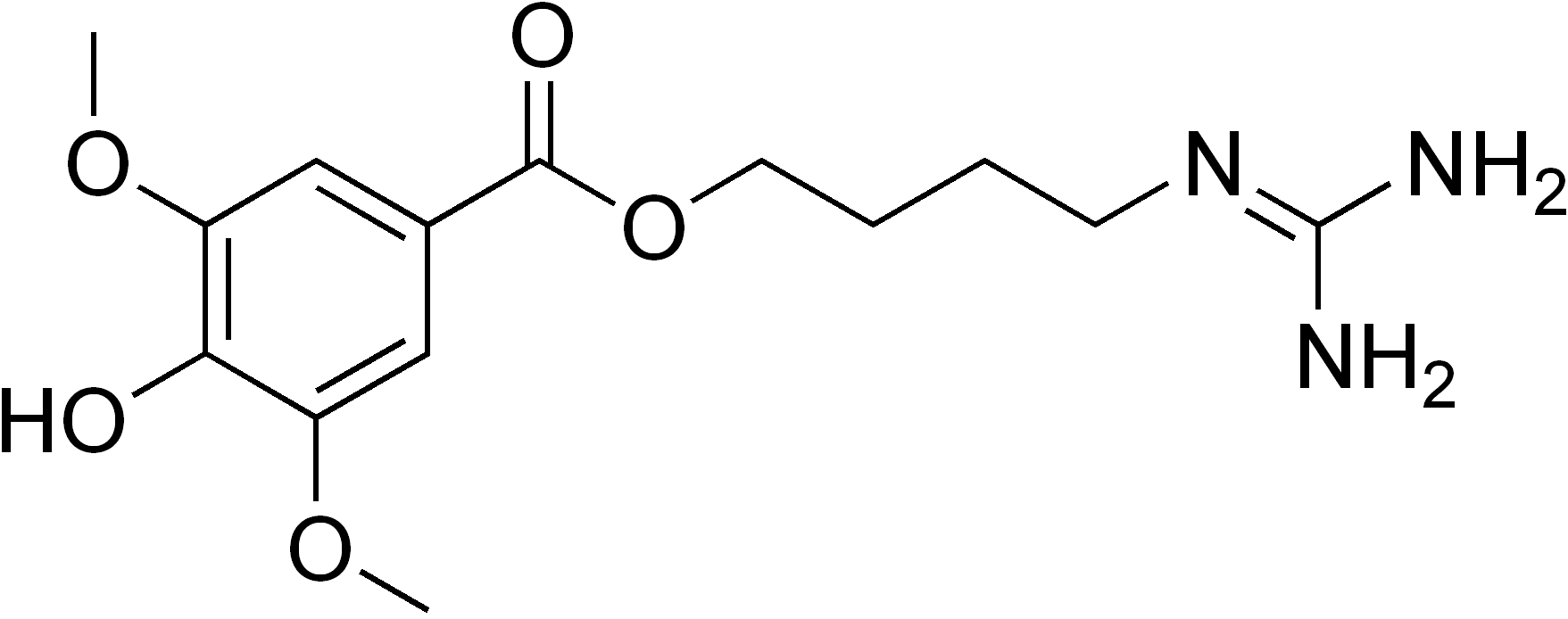 chemical structure of leonurine